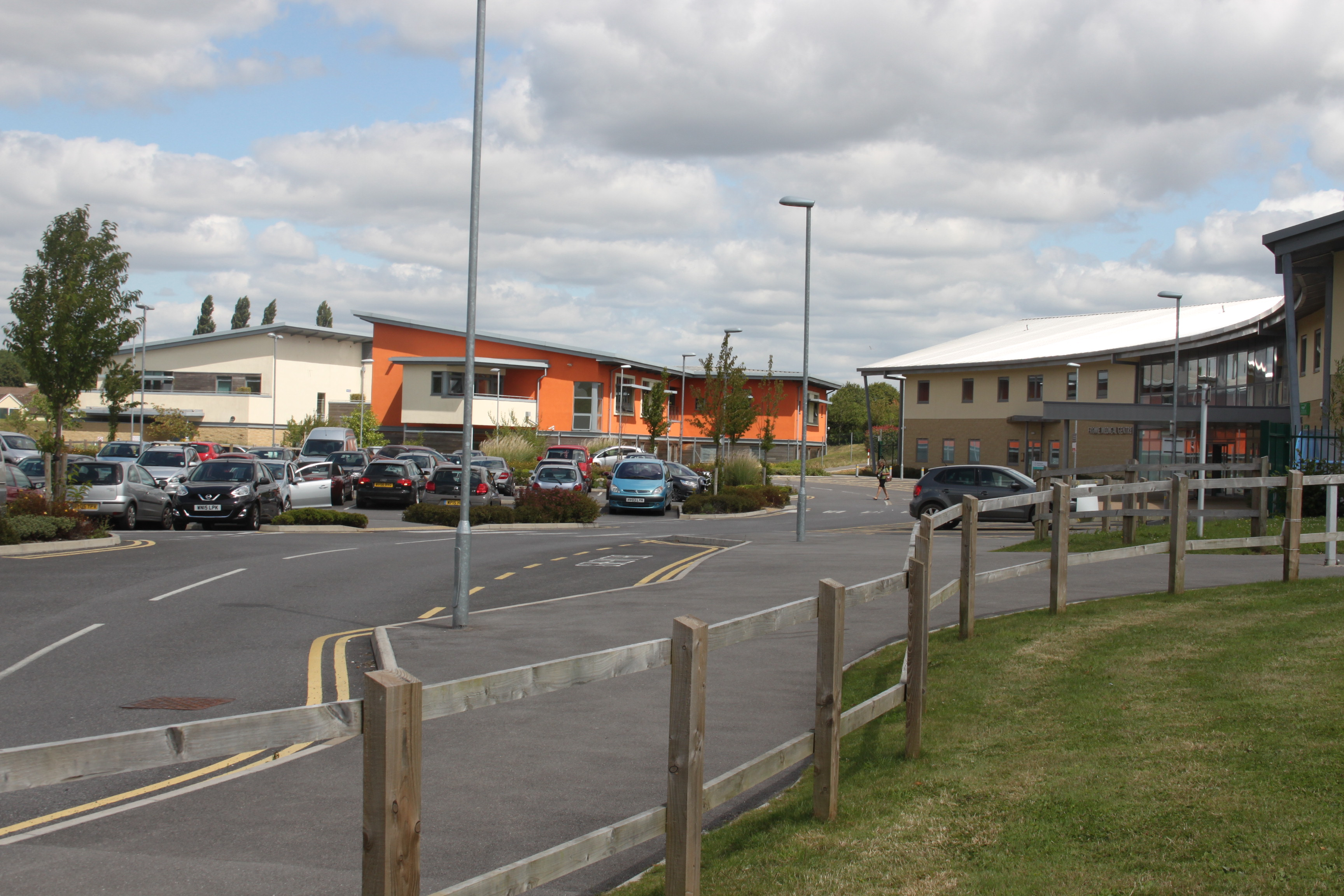 Frome Community Hospital